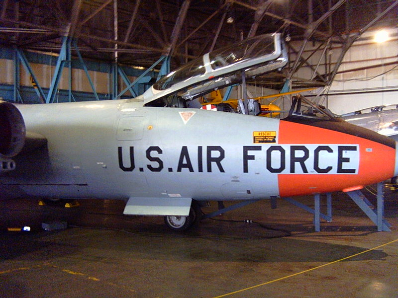 EB-57E Canberra s/n 55-4293